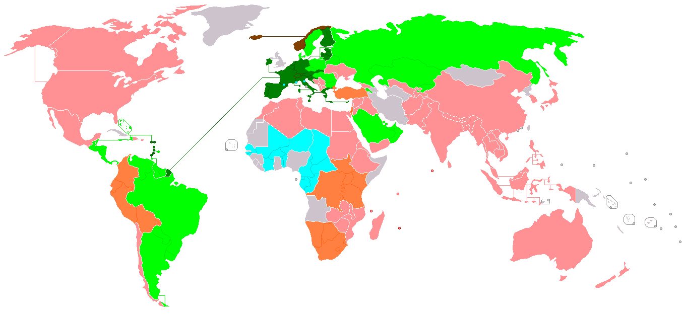 Stages of economic integration around the World:(each country colored according to the most advanced agreement that it participates in. Economic and monetary union (CSME/EC$, EU/€, Switzerland–Liechtenstein/CHF) Economic union (CSME, EAEU, EU, MERCOSUR, GCC, SICA) Customs and Monetary Union (CEMAC/XAF, UEMOA/XOF) Common market (EEA–Switzerland, ASEAN) Customs union (CAN, EAC, EUCU, SACU) Multilateral Free Trade Area (CEFTA, CISFTA, COMESA, DCFTA, EFTA, GAFTA, NAFTA, SAFTA, AANZFTA, PAFTA, SADCFTA)